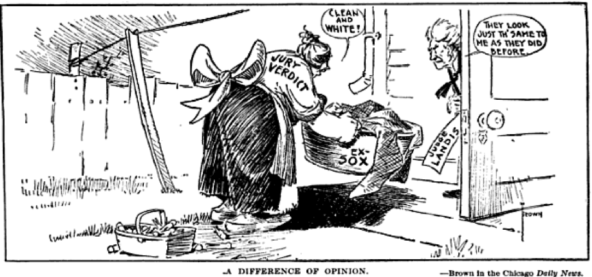 Cartoon by Ted Brown of the Chicago Daily News: Commissioner Kenesaw Landis is unimpressed by attempts to get the "black" out of the "Black Sox" after they were acquitted in a jury trial.